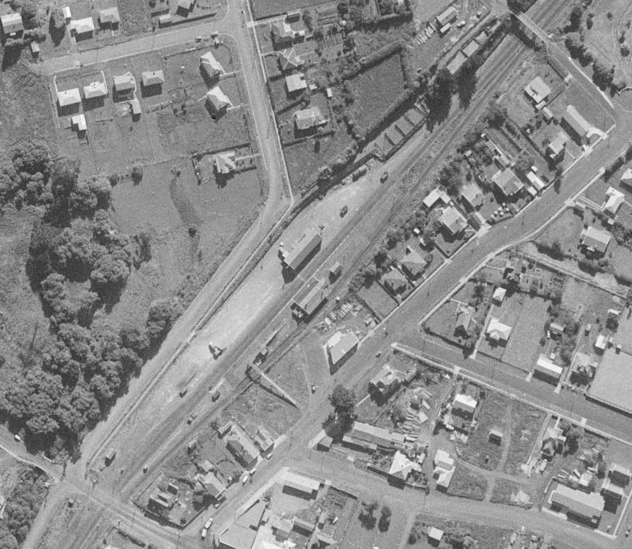 SN1397 Whangarata railway station in 1961